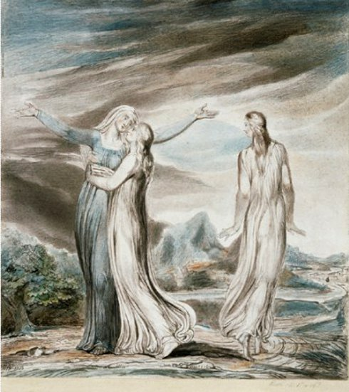 William Blake, Ruth the Dutiful Daughter-in-law, 1803 Southampton Art Gallery Medium:Watercolour Dimensions: 41 x 34 cm Acquired in:1949 Bequeathed by:Executors of W. Graham Robertson through The Art Fund Orpah, a slender figure in a pink dress, turns away to the right along a road which winds away into the distance. The work is pale and silvery in tone. This watercolour is part of a collection of works by William Blake belonging to the late Graham Robertson and was included in his sale at Christie's in 1949.